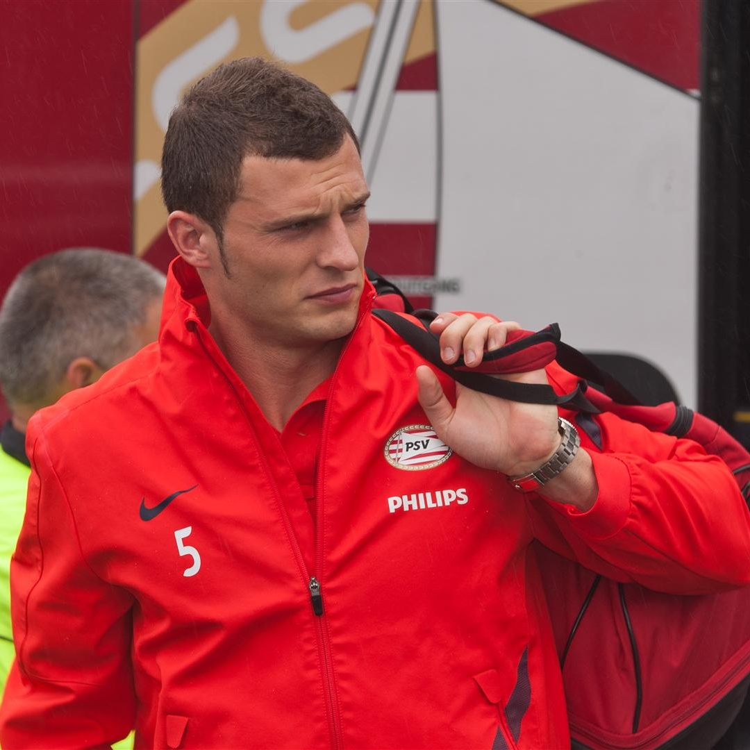 Dutch footballer Erik Pieters prior to the KNVB-Cup match VVSB-PSV on 21 September 2011